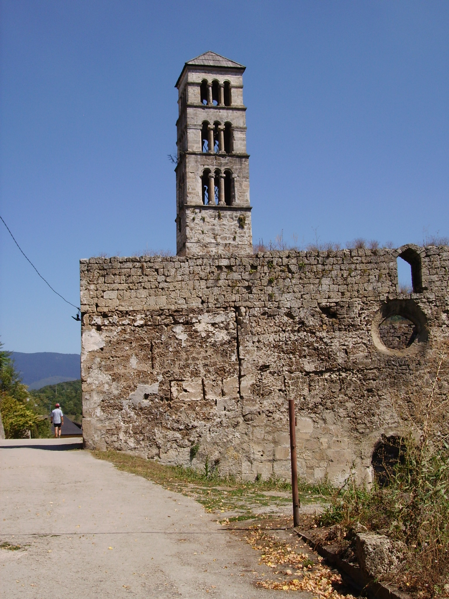 Bell tower in the old town of Jajce, BiH.